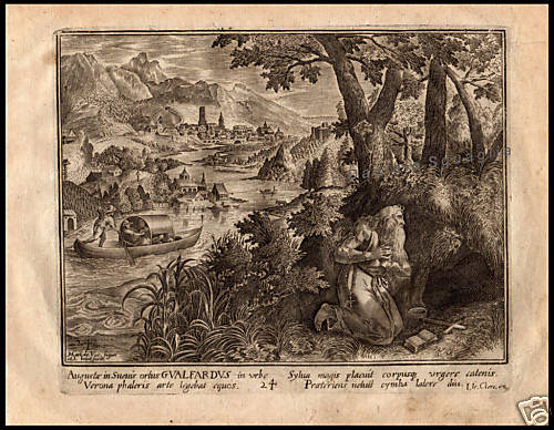 Saint Gualfard of Verona, engraved print by I. Brint, from a Martin De Vos' drawing; published in Paris: Jean Le Clerc, 1620